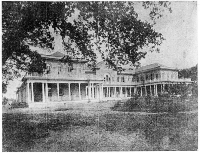 Convent of the Rosary, St. Charles Avenue, Uptown, New Orleans, 1900. This was the first photograph reproduced in the Picayune New Orleans newspaper.